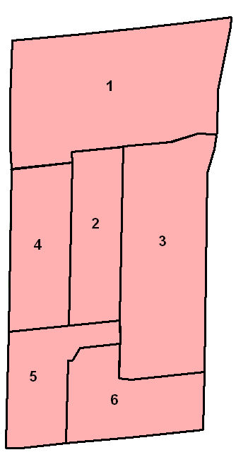 Map of Richmond Hill, Ontario's six wards used since the 2006 election.